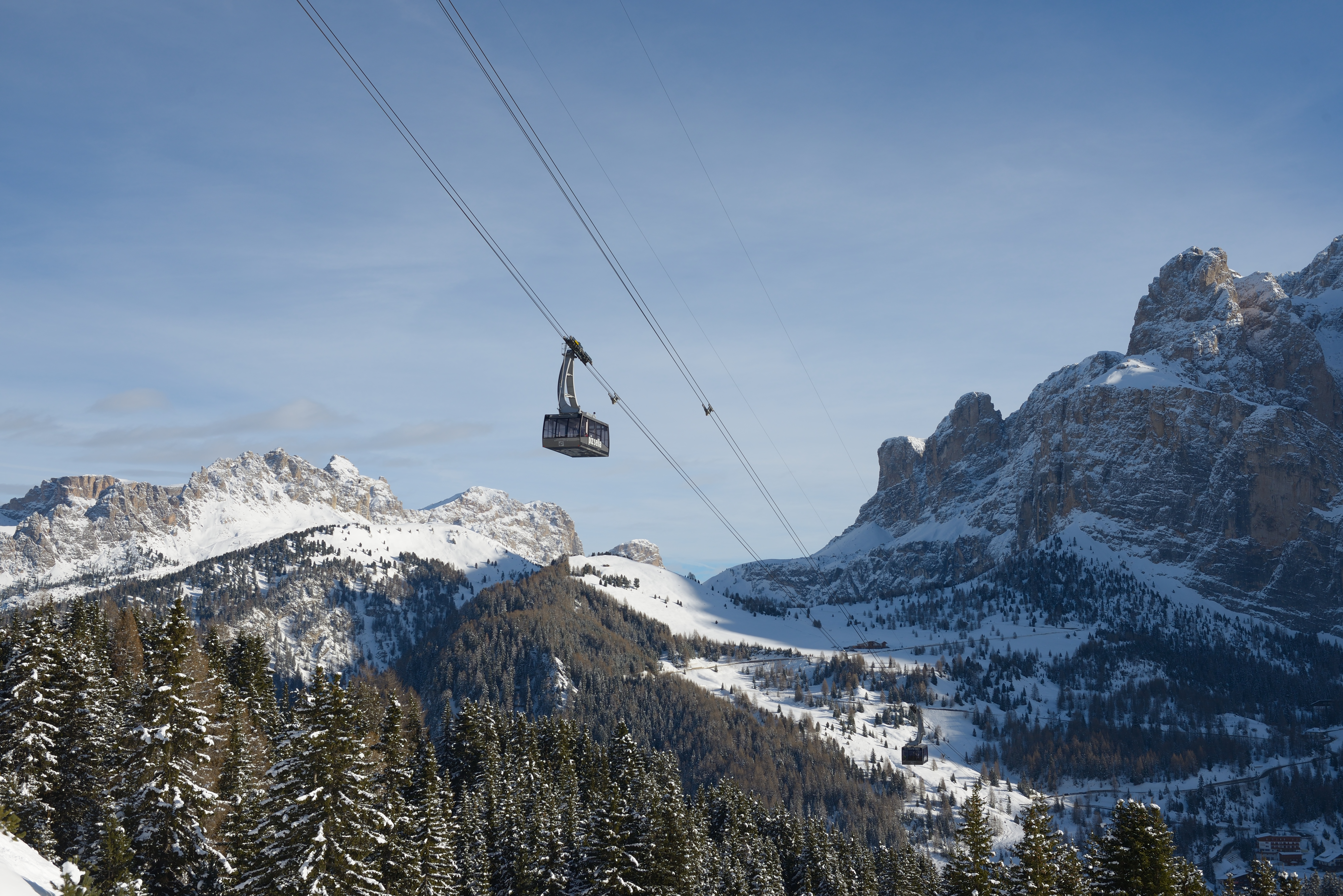 The Piz Sella cablecar. In the rear the Murfreit peaks in the Sella Group, Dolomites - South Tyrol